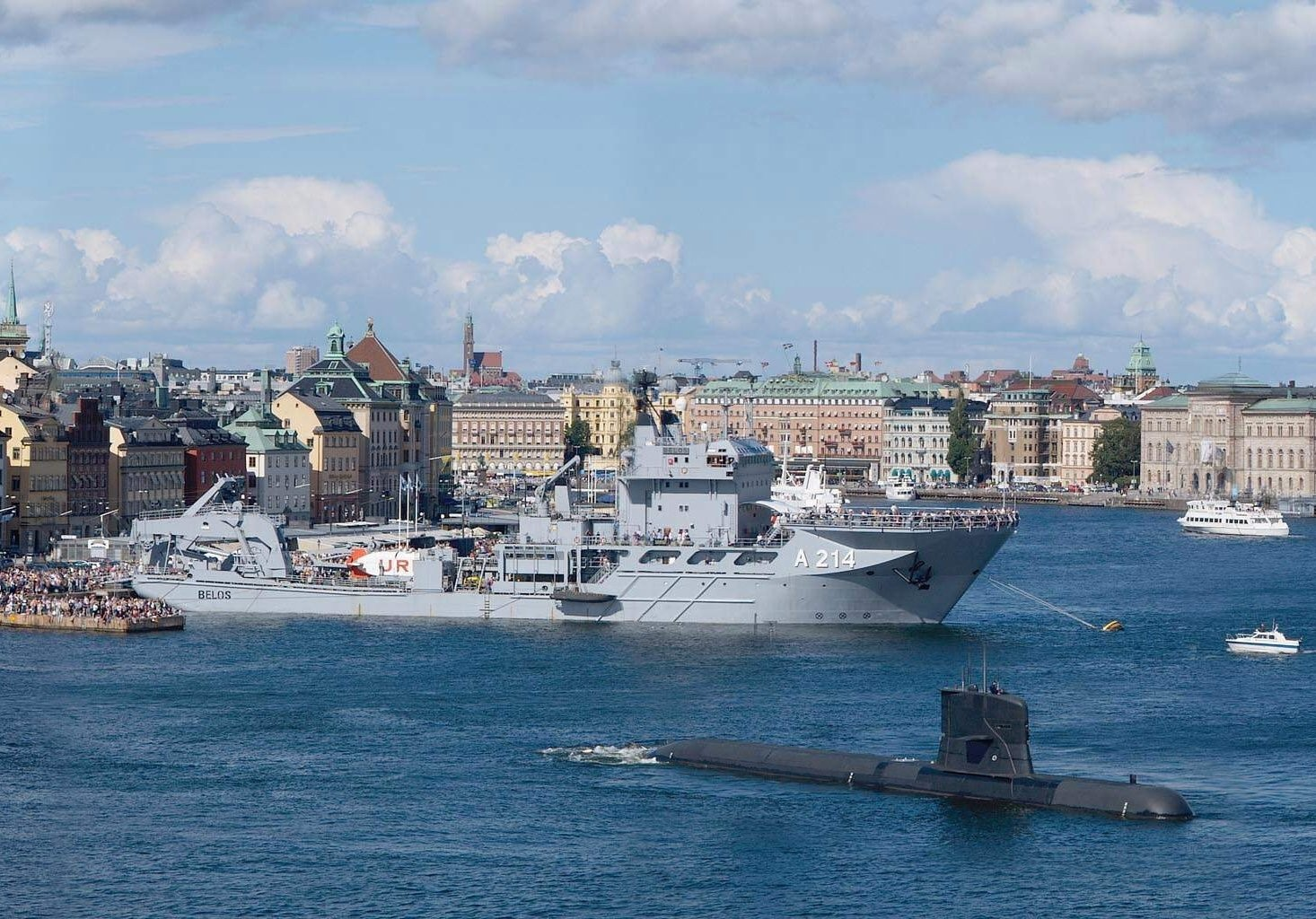 The Swedish submarine force celebrated 100 years of service on August 18-22, 2004 with festivities and shows on Stockholms Ström. Shown are the diving- and rescue ship HMS Belos and the submarine HMS Södermanland.